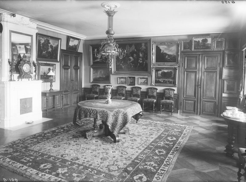 Interior from Heleneborg, around 1900